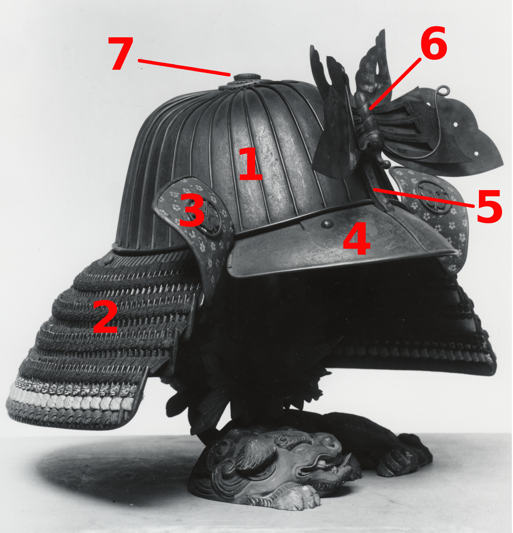 Basic parts of Japanese style helmet (kabuto)